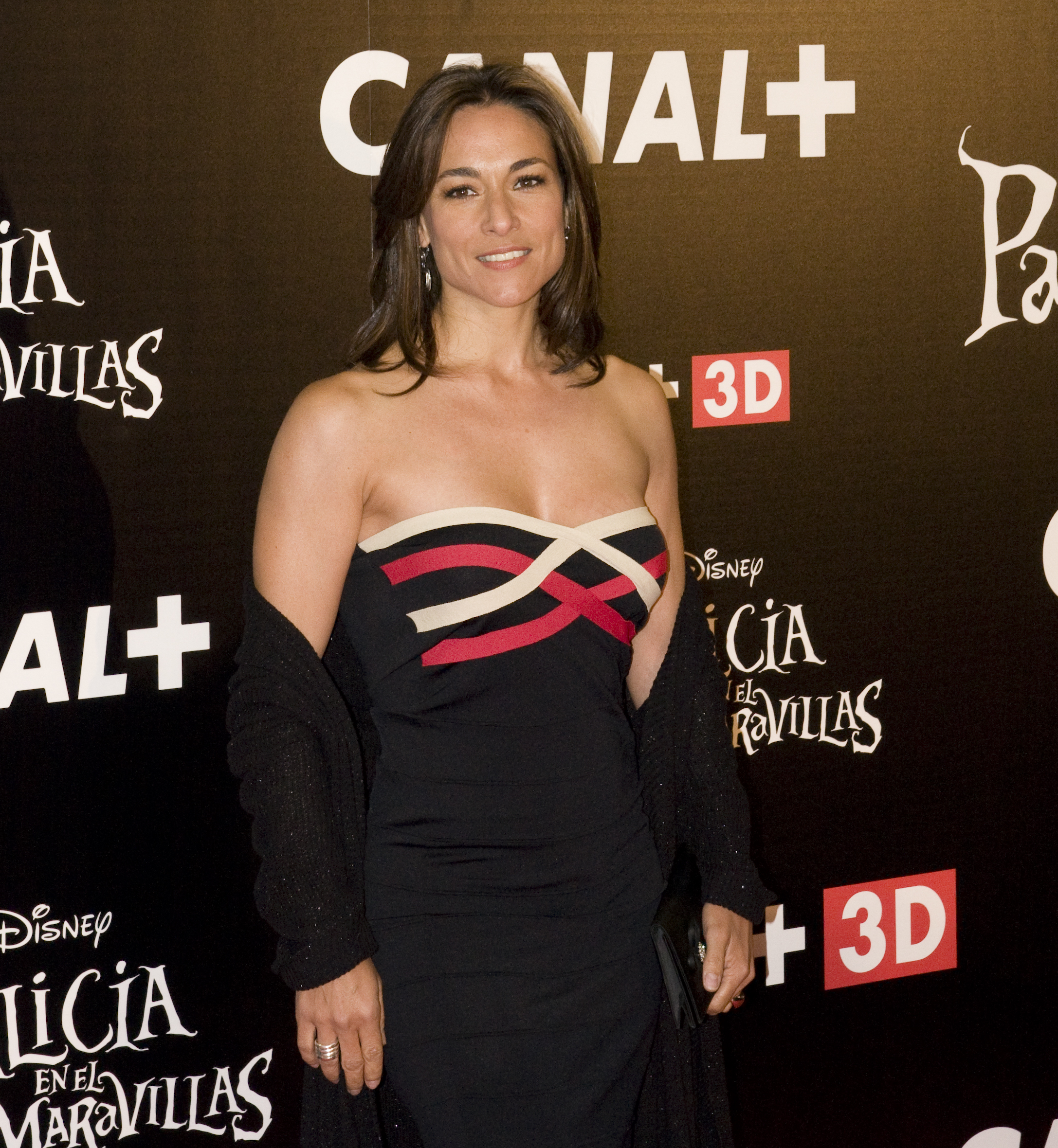 Isabel Serrano Spanish actress at the photocall of Alice in Wonderland in 2010.